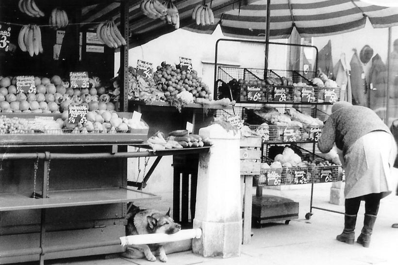 market stand next to famous castle gate at corner Kohlmarkt–Michaelerplatz